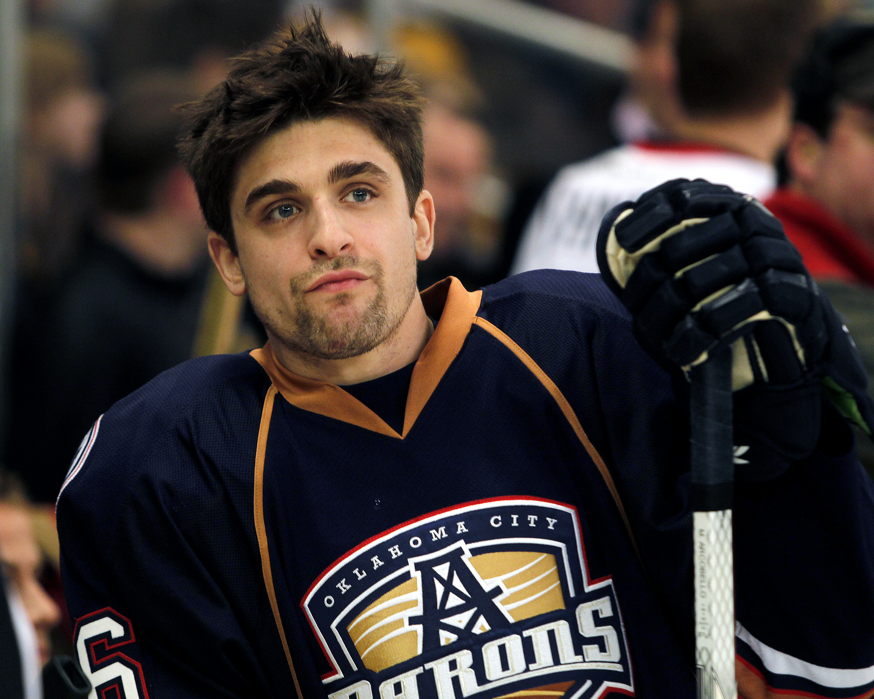 Mark Arcobello, American Hockey League (AHL), 2013 All-Star Skills Competition.